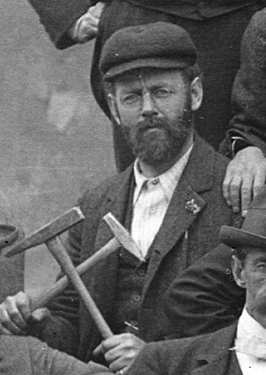 American geologist James Furman Kemp (1859–1926) at age 38. Cropped from a group photo taken at Jefferson Rock, Harpers Ferry, West Virginia.